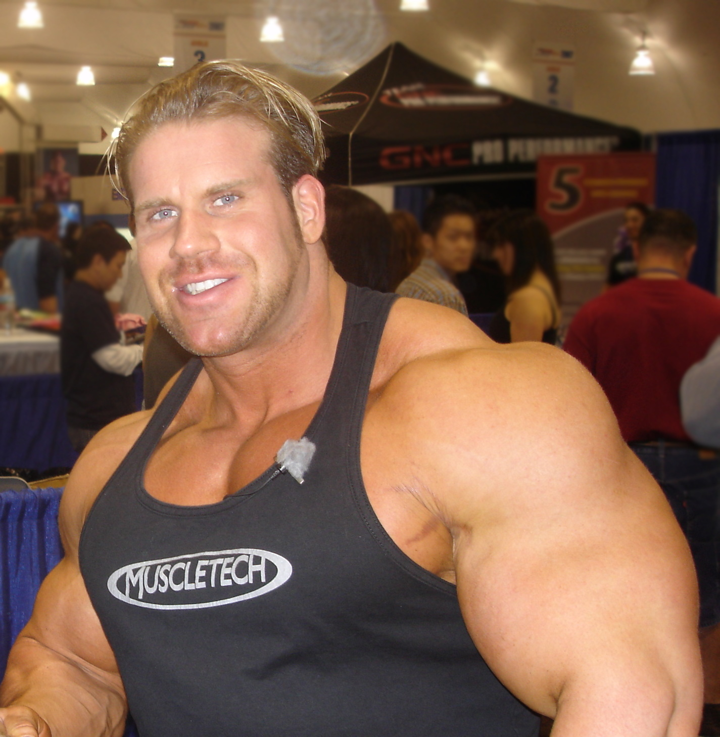 Jay Cutler (bodybuilder) in 2008.